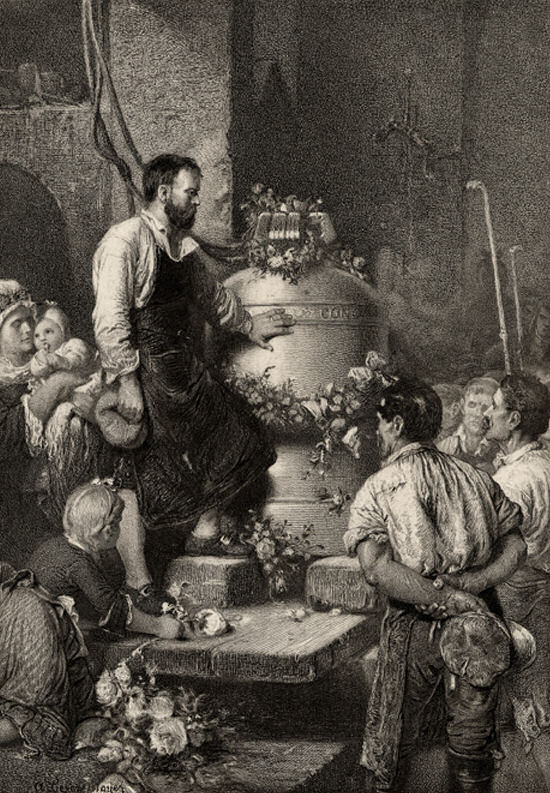 illustration of „The Song of the Bell“